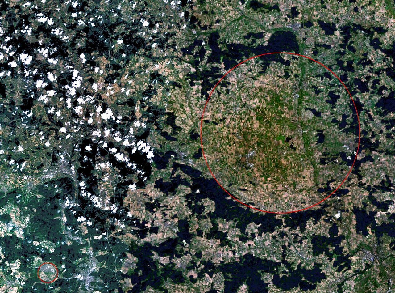 Nördlinger Ries (large, circular feature right of center) and Steinheim Basin (near lower left corner).